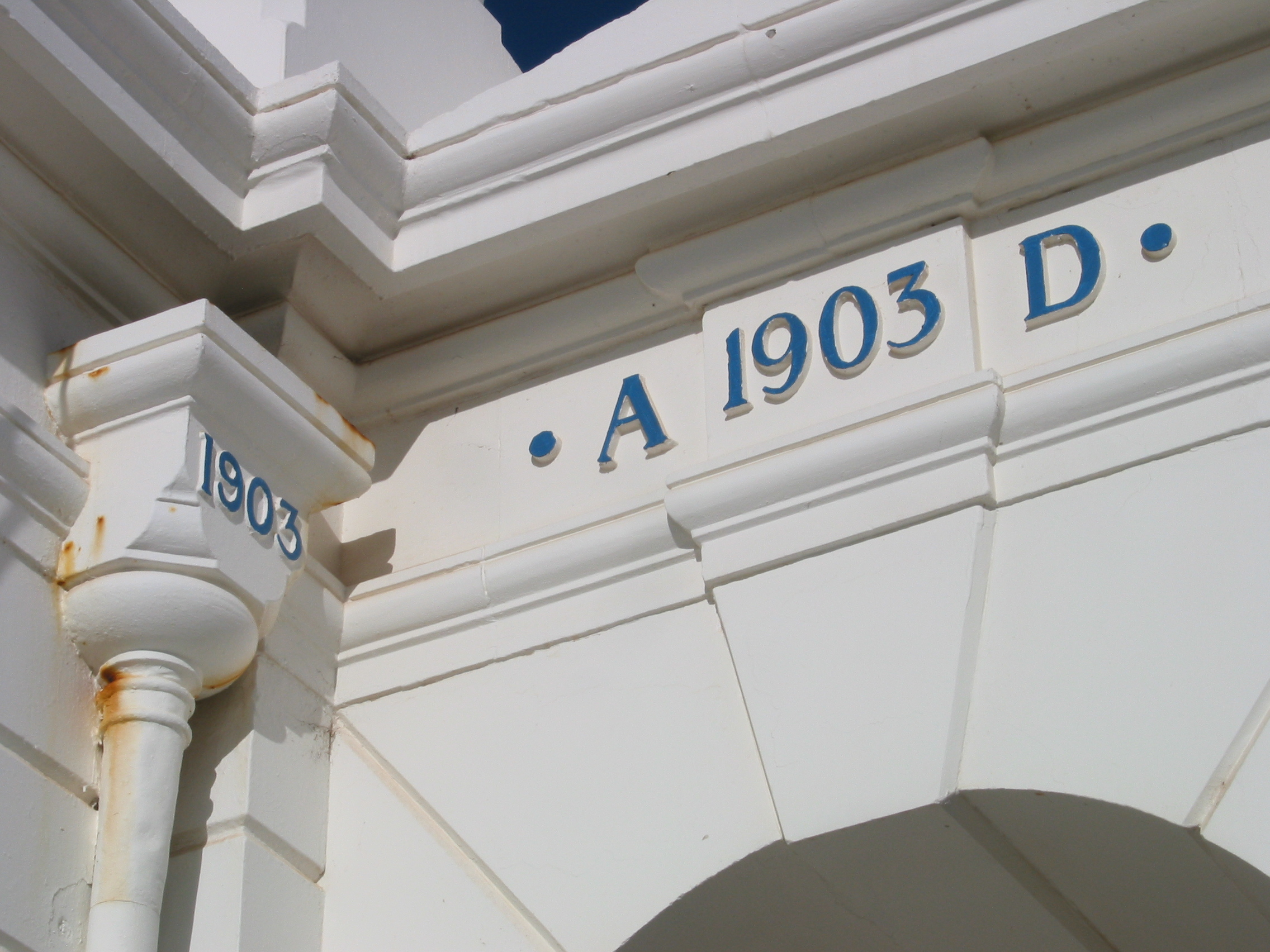 Norah Head Lighthouse AD 1903